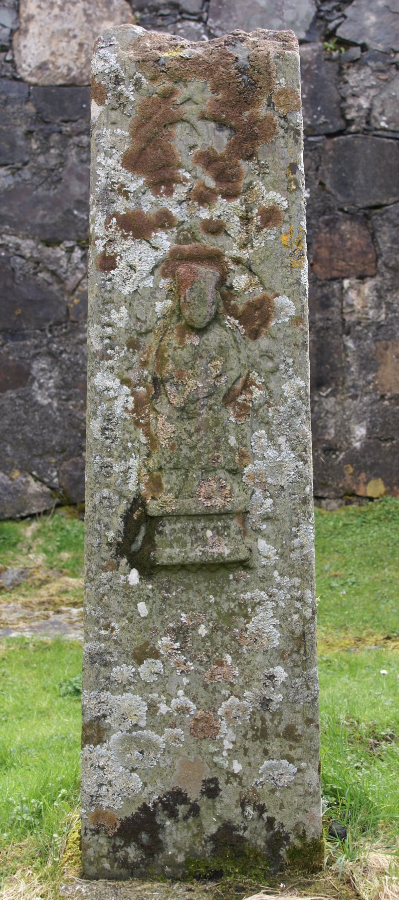 Pennygown Chapel, Mull, Argyll and Bute, Scotland. Pennygown Cross, front side.